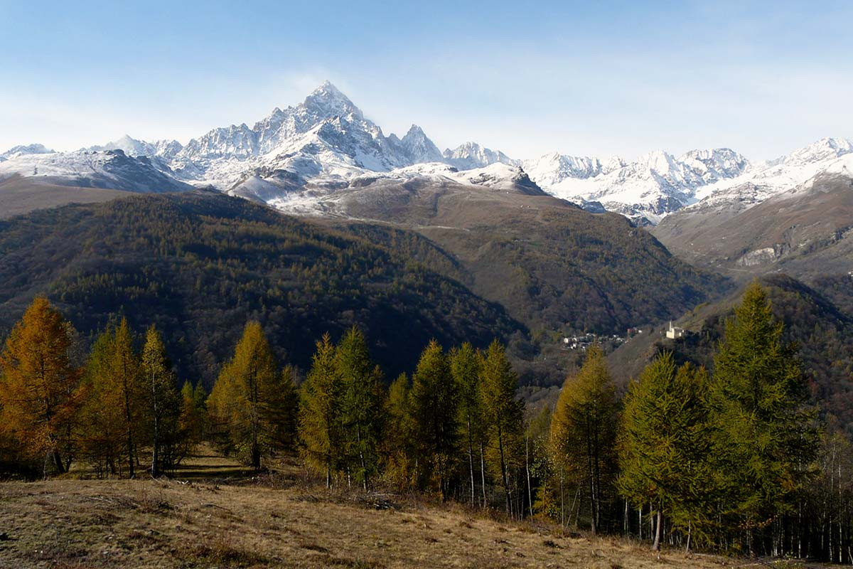 Momviso